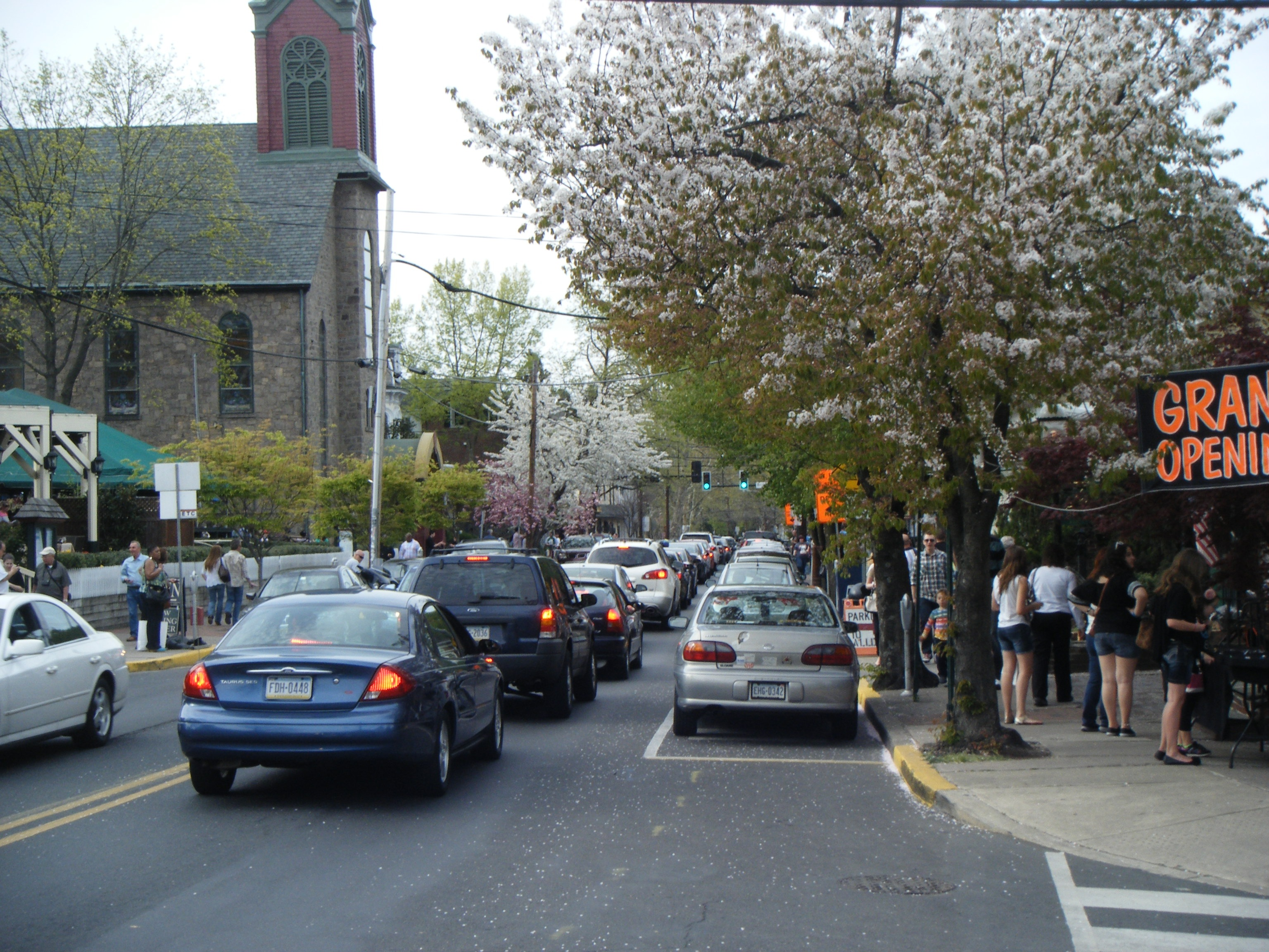 Northbound Pennsylvania Route 32 (Main Street) approaching the intersection with Pennsylvania Route 179 (Bridge Street) in New Hope.